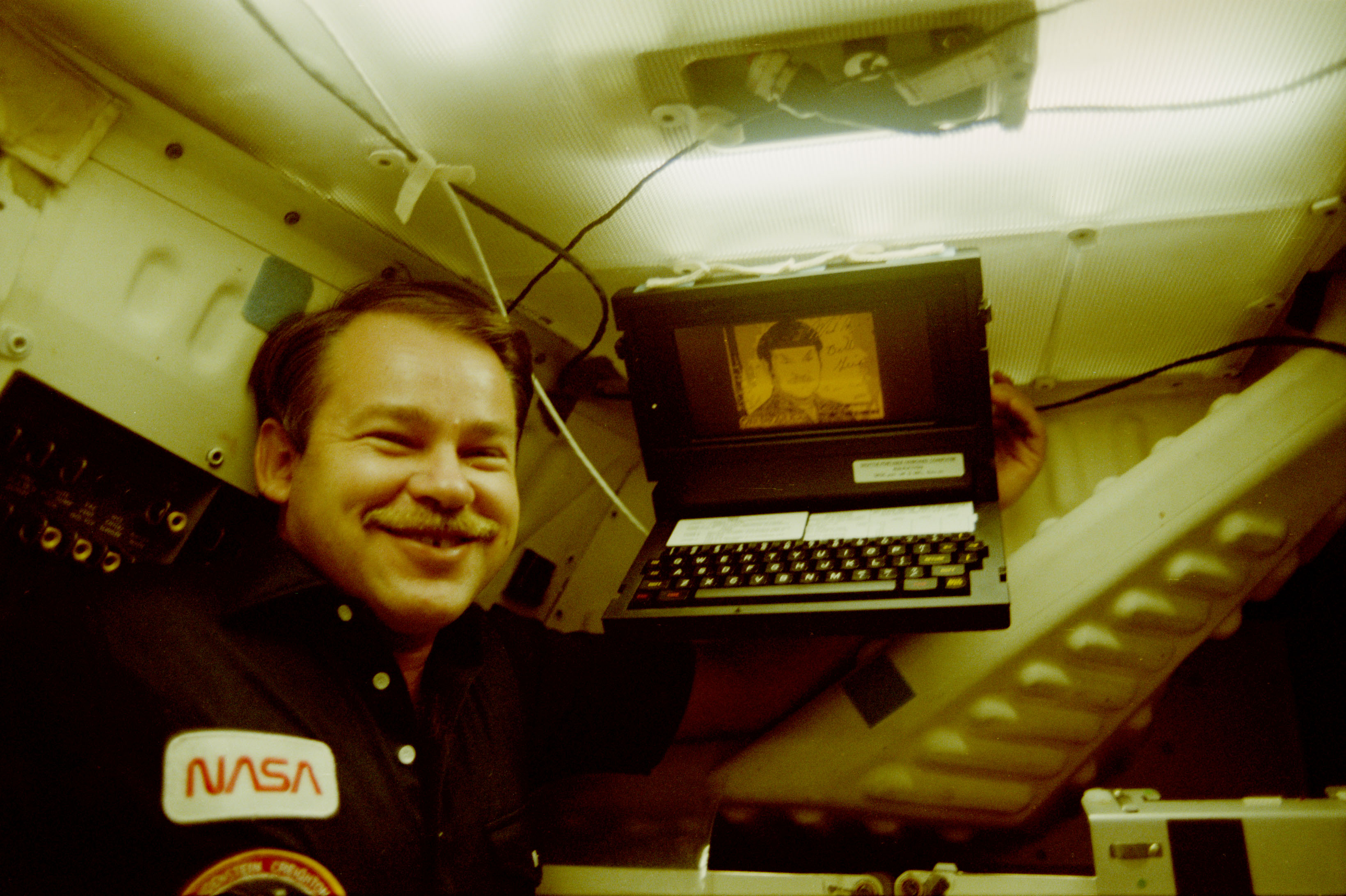 Astronaut John O. Creighton poses with onboard GRiD Compass computer, displaying a likeness of Mr. Spock of Star Trek, aboard Space Shuttle Discovery mission STS-51-G on 18 June 1985. Taken from NASA website, and as such falls outside copyright.